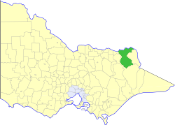 Location of the Shire of Tallangatta within Victoria.